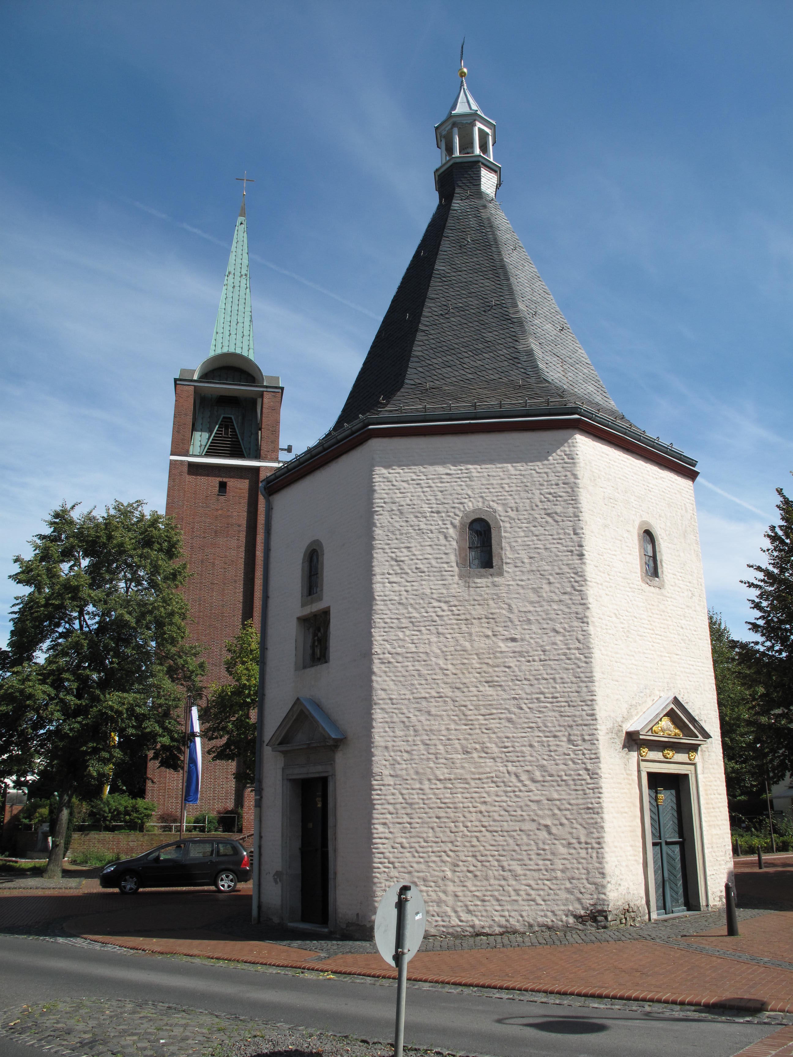 Aldenhoven, tower near the church